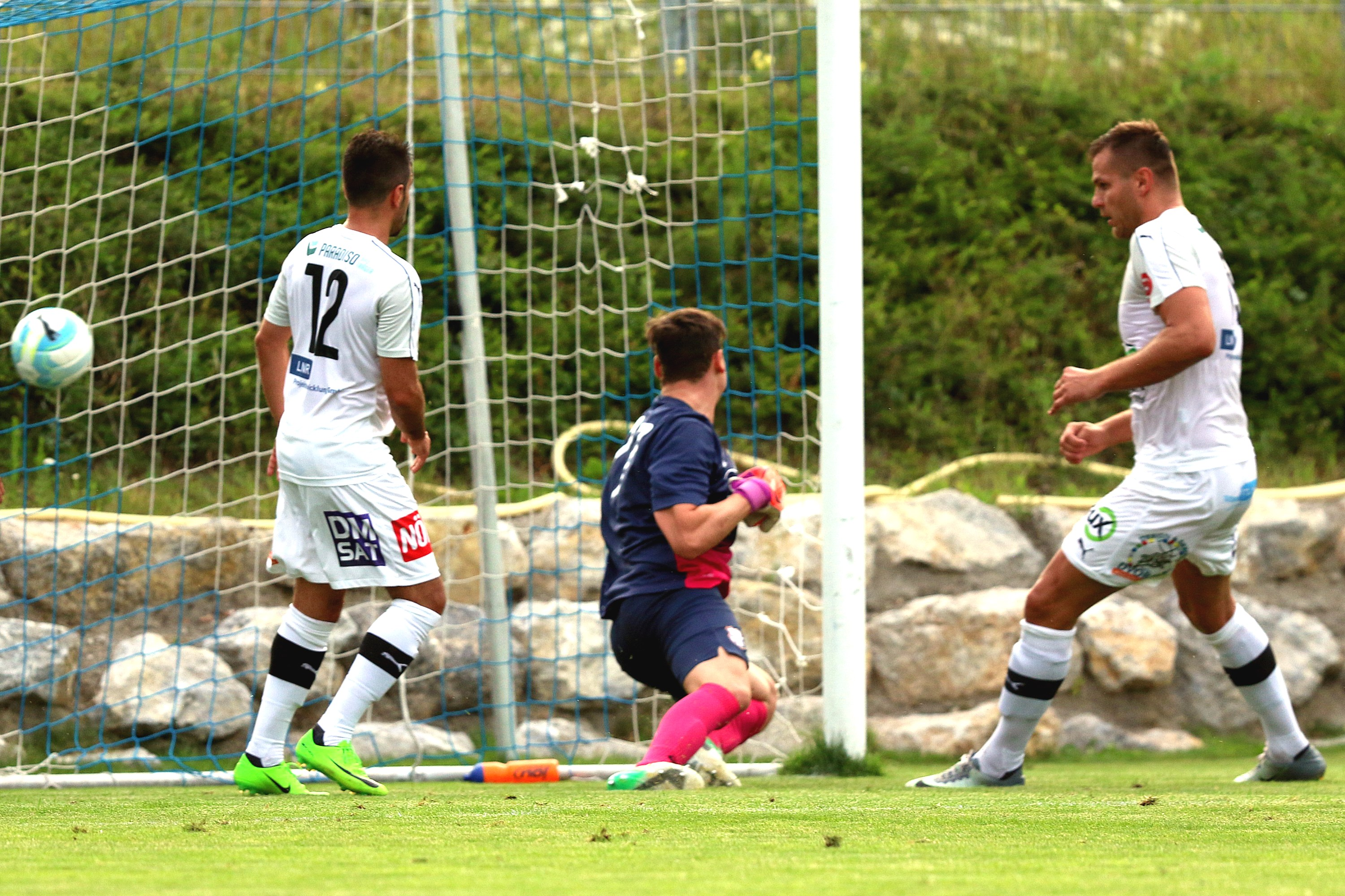 2017–18 Austrian Cup - SC Bad Sauerbrunn (blue shirts) vs. ASK-BSC Bruck/Leitha (white shirts) 0-4. – The photo shows from left to right Mirnel Sadović, goalkeeper Thomas Drabek (SC Bad Sauerbrunn) and Edin Salkić.